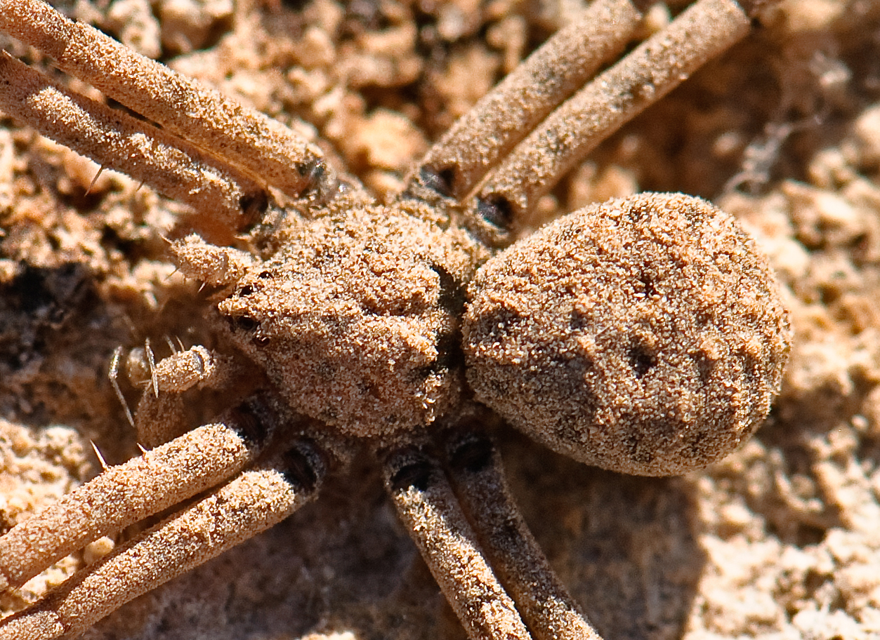 Basically all spiders have various structural "hairs" (= setae) on their body. Authors Duncan, Autumn & Binford (2007) showed that Homalonychus setae are special, with many side-branches ("hairlettes") that serve to trap sand/soil particles, thus providing a natural cryptic covering for these spiders.